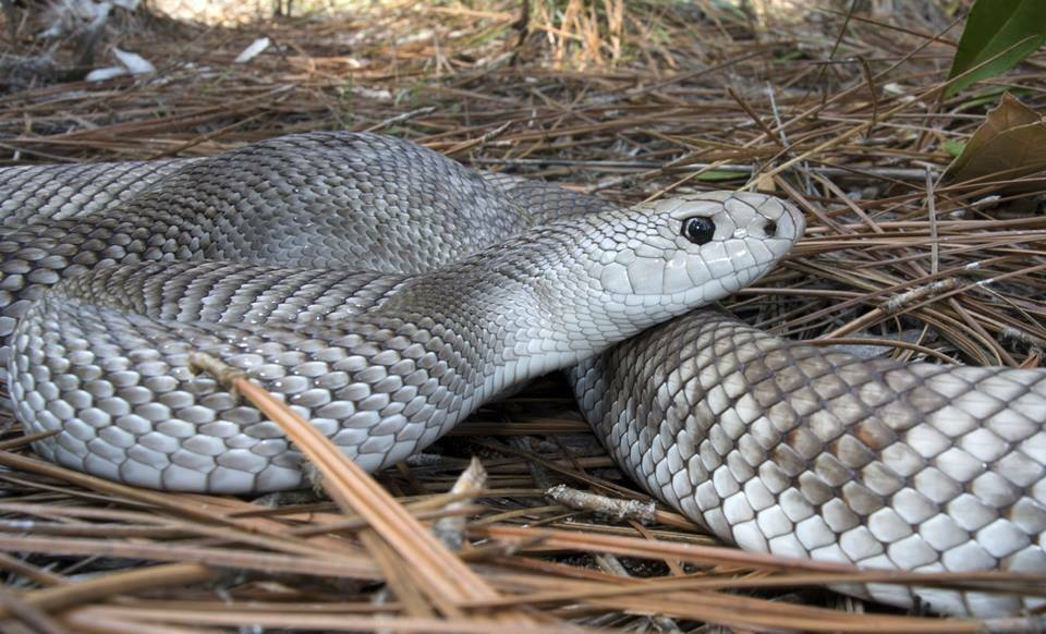 Florida Pine Snake, Pituophis melanoleucus light pattern